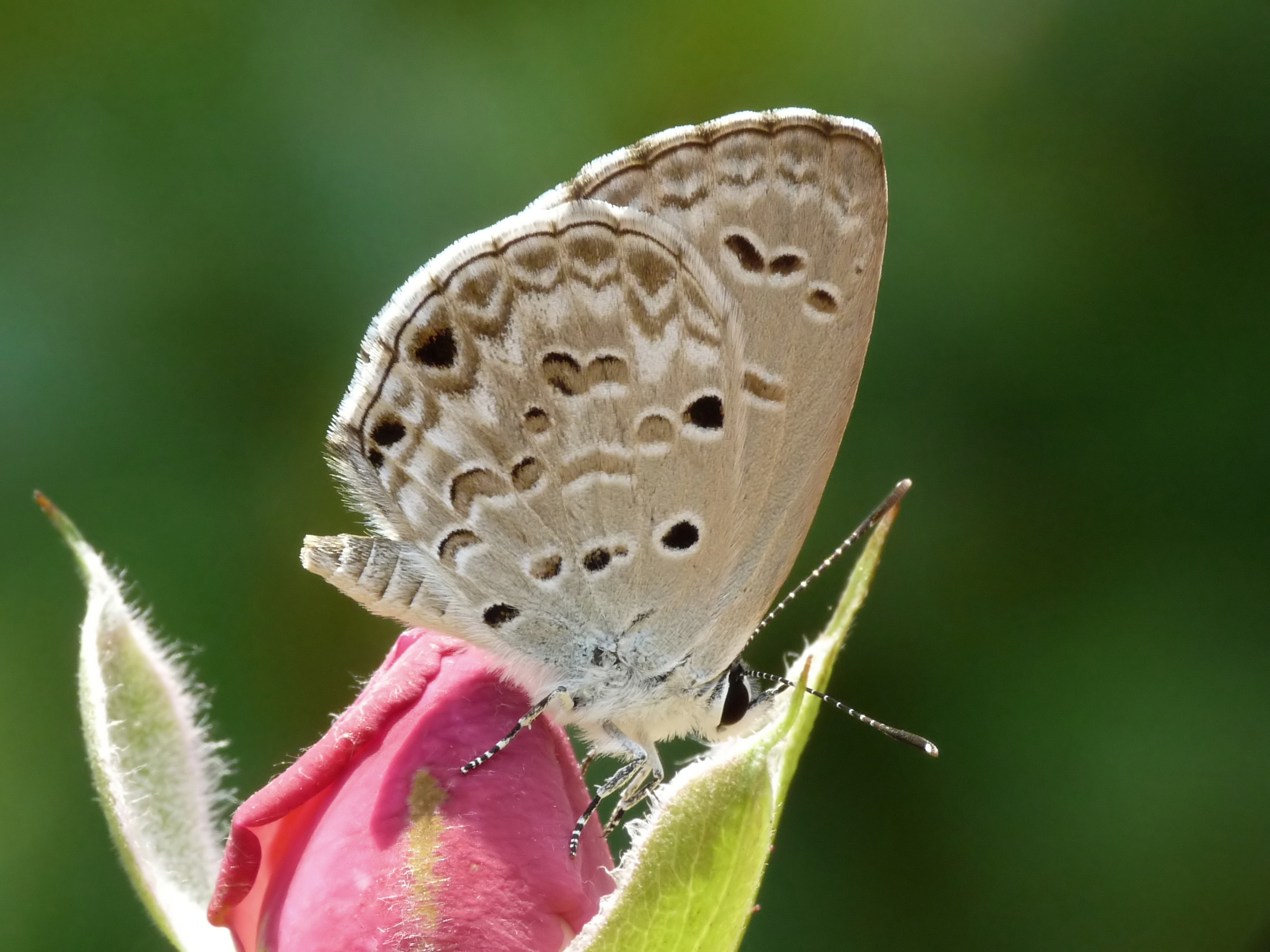 Chilades lajus, Wet Season Form The Lime Blue (Chilades lajus) is a small butterfly found in India that belongs to the Lycaenids or Blues family. Taken at Kadavoor, Kerala, India